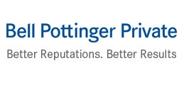 Bell Pottinger Private logo